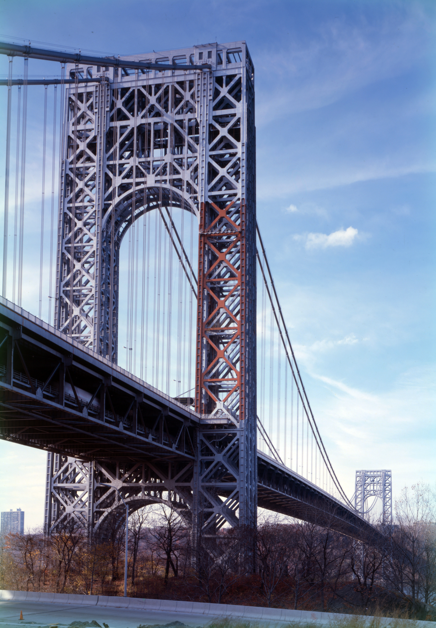 George Washington Bridge, spanning the Hudson River between New York City and New Jersey. New York Tower.